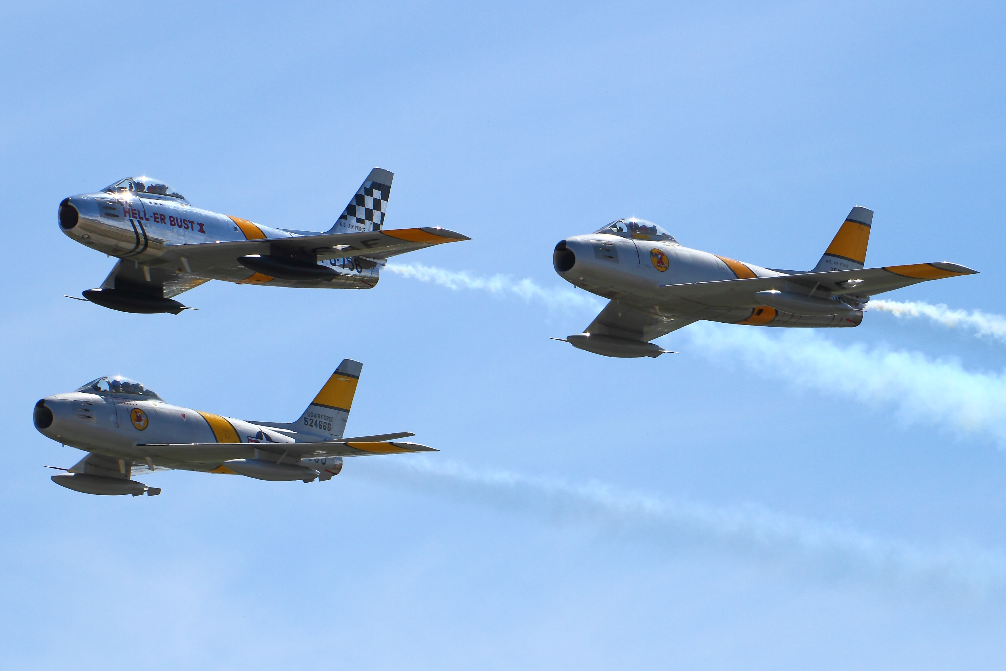 F86 Sabres - Chino Airshow 2014